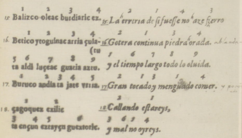 Basque proverb book from 1596. Sample of proverbs. Only copy was lost in WW2, but previous photos were saved.